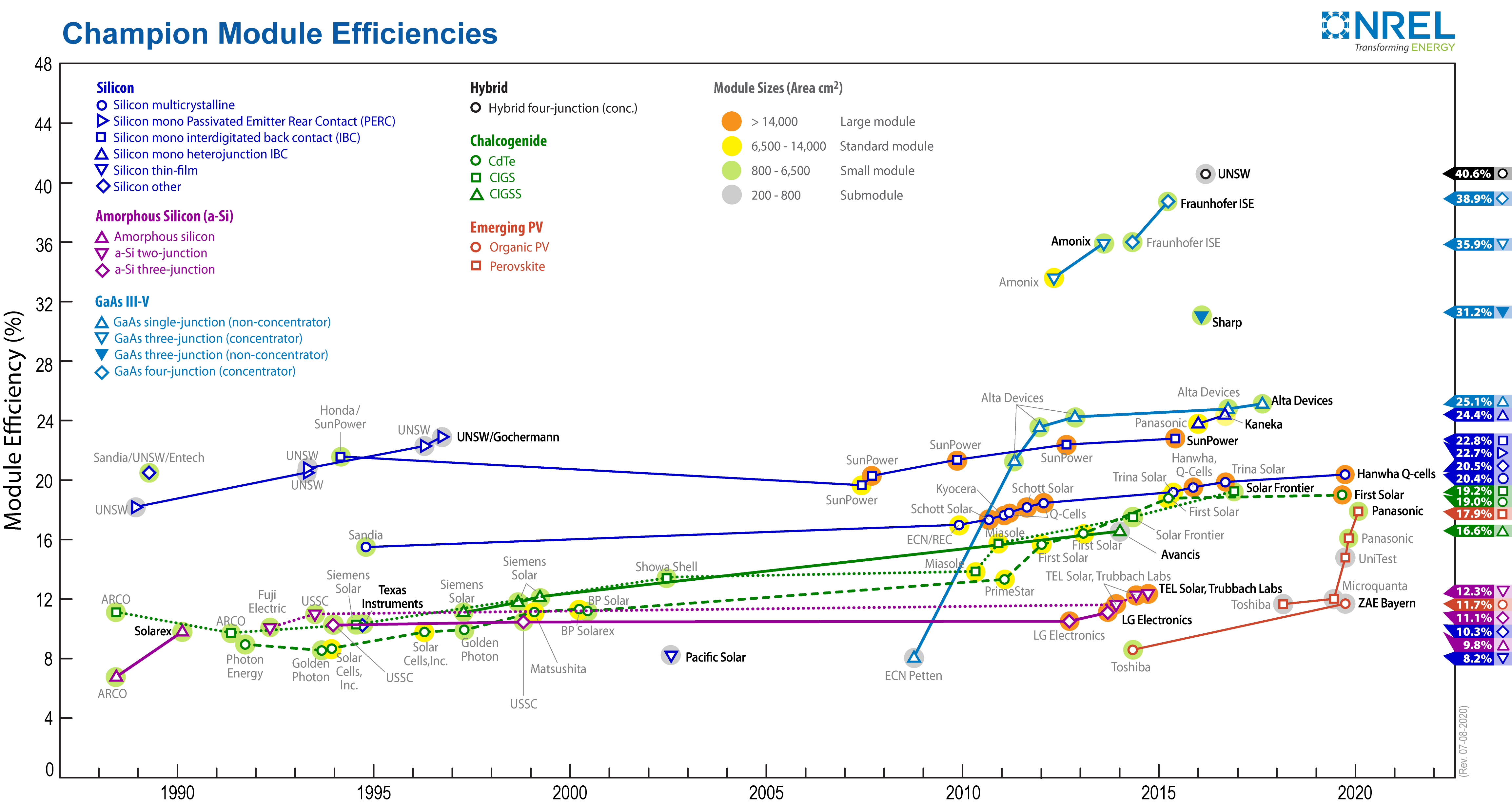 Conversion efficiencies of champion solar modules worldwide from 1988 through 2019 for various photovoltaic technologies. Efficiencies determined by certified agencies/laboratories.